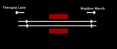 Layout of Ampere Way tram stop.